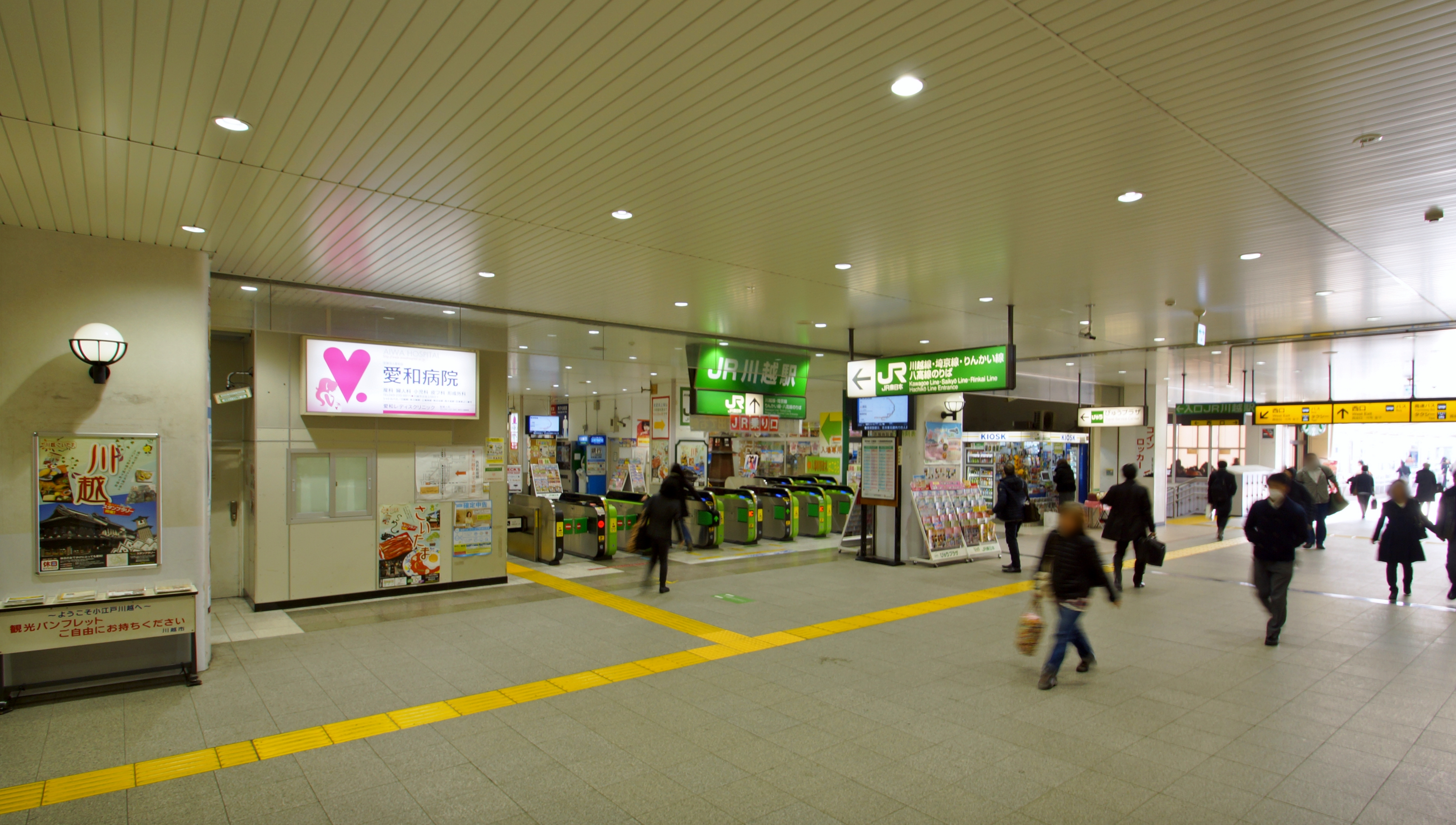 The JR East ticket barriers at Kawagoe Station in Saitama Prefecture, Japan